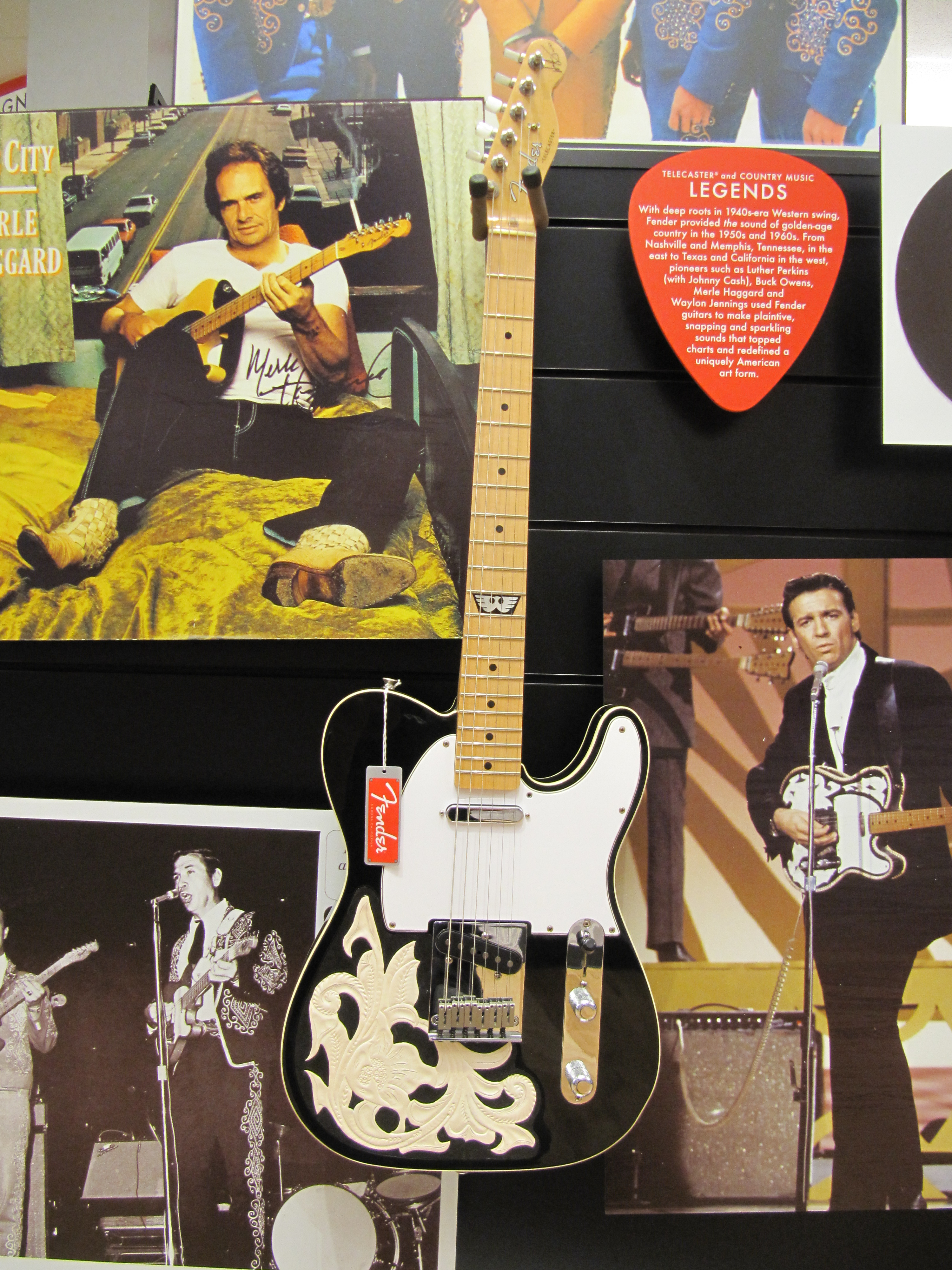 Fender Guitar Factory museum 5. Country model